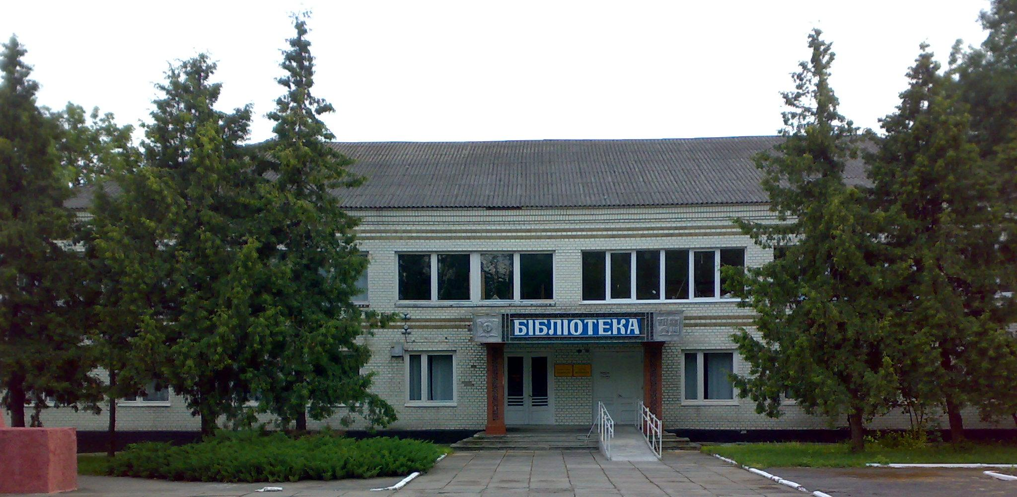 Library in Dunaivtsi city